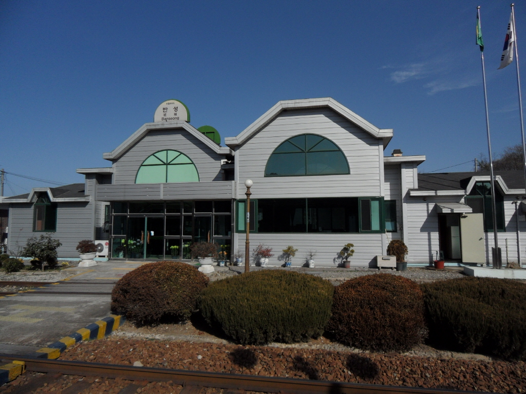 Korail Banseong Station